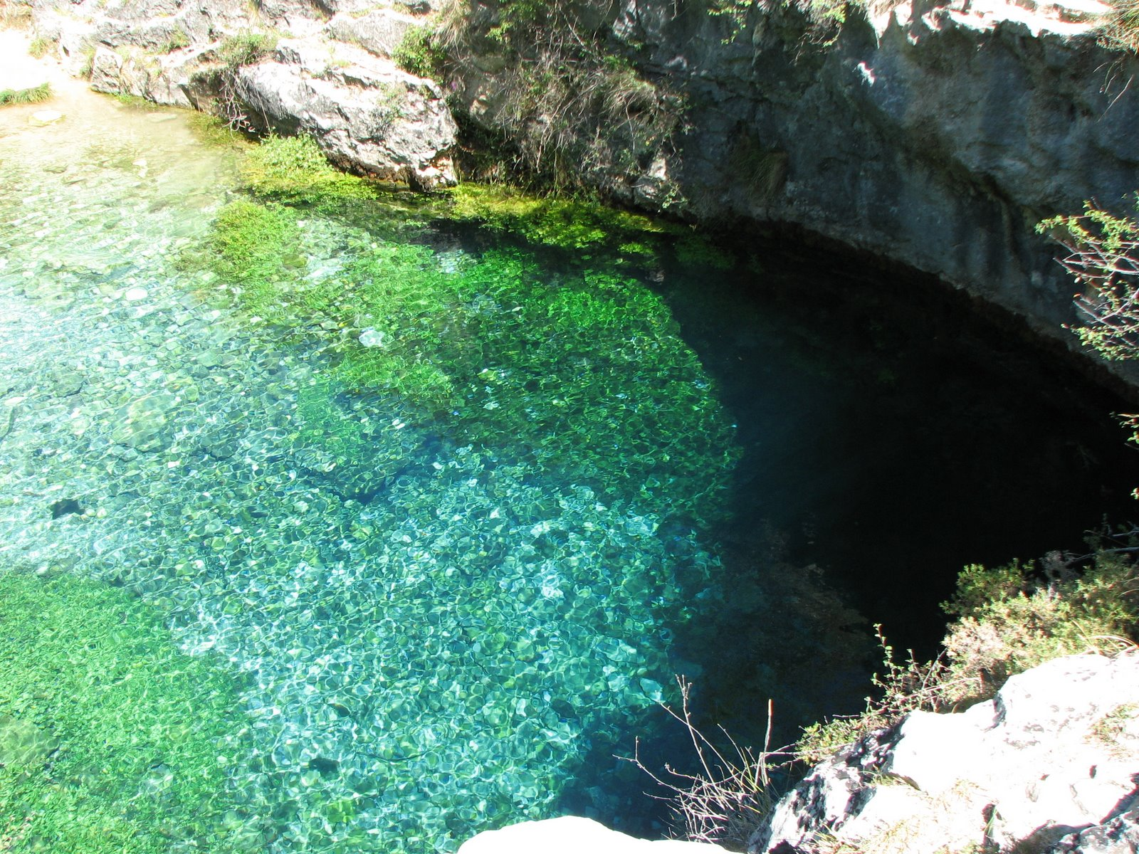 Pozo azul, placed in Covanera, Burgos, España